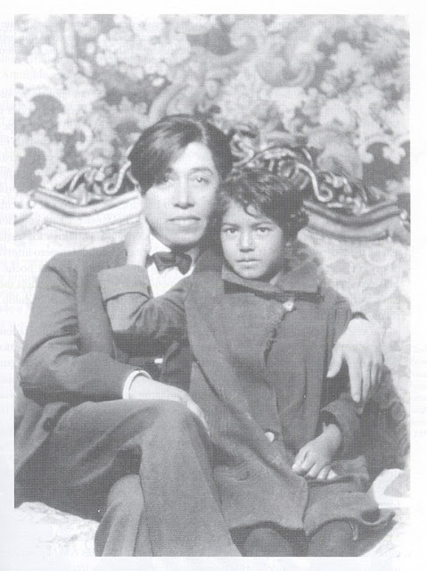 Depicted person: Xavier Guerrero